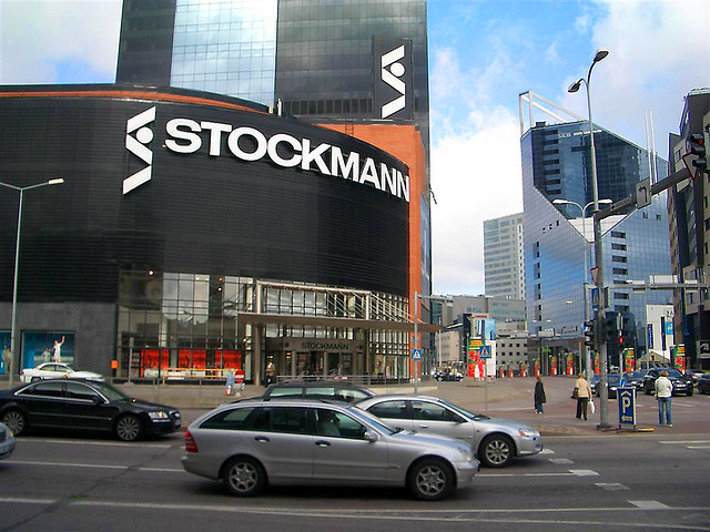 Stockmann in downtown Tallinn